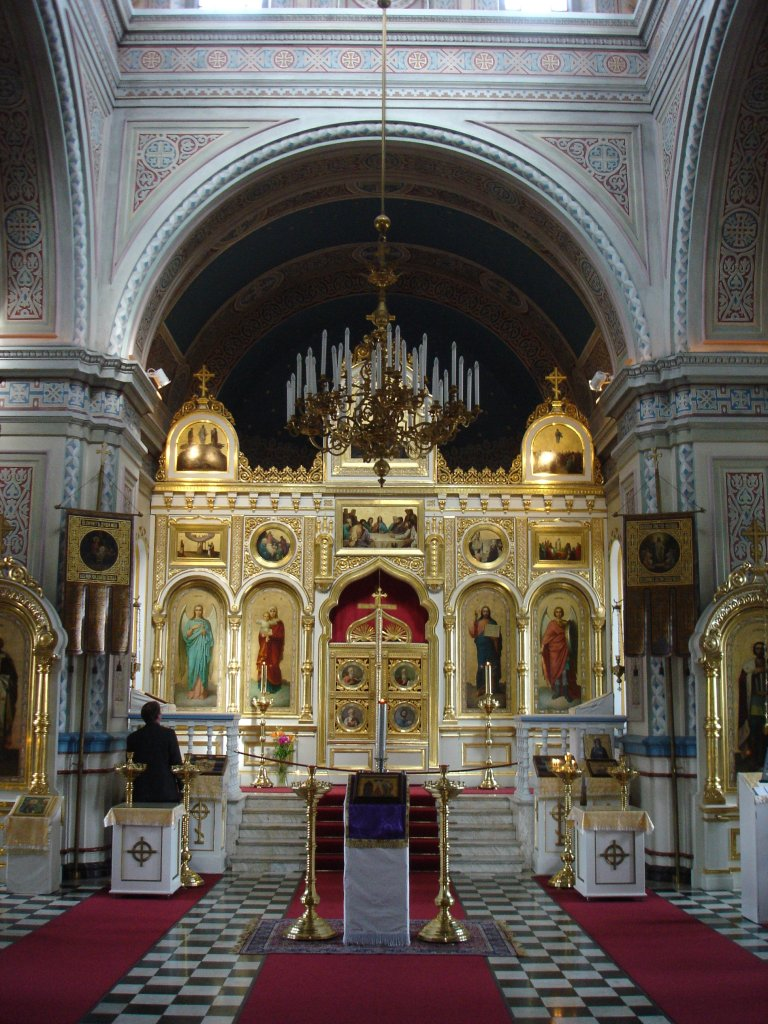 The iconostasis of Tampere Orthodox Church